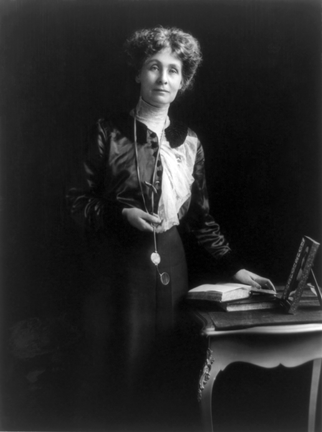 Emmeline (Goulden) Pankhurst, three-quarter length portrait, standing by small table, facing right, with left hand on book